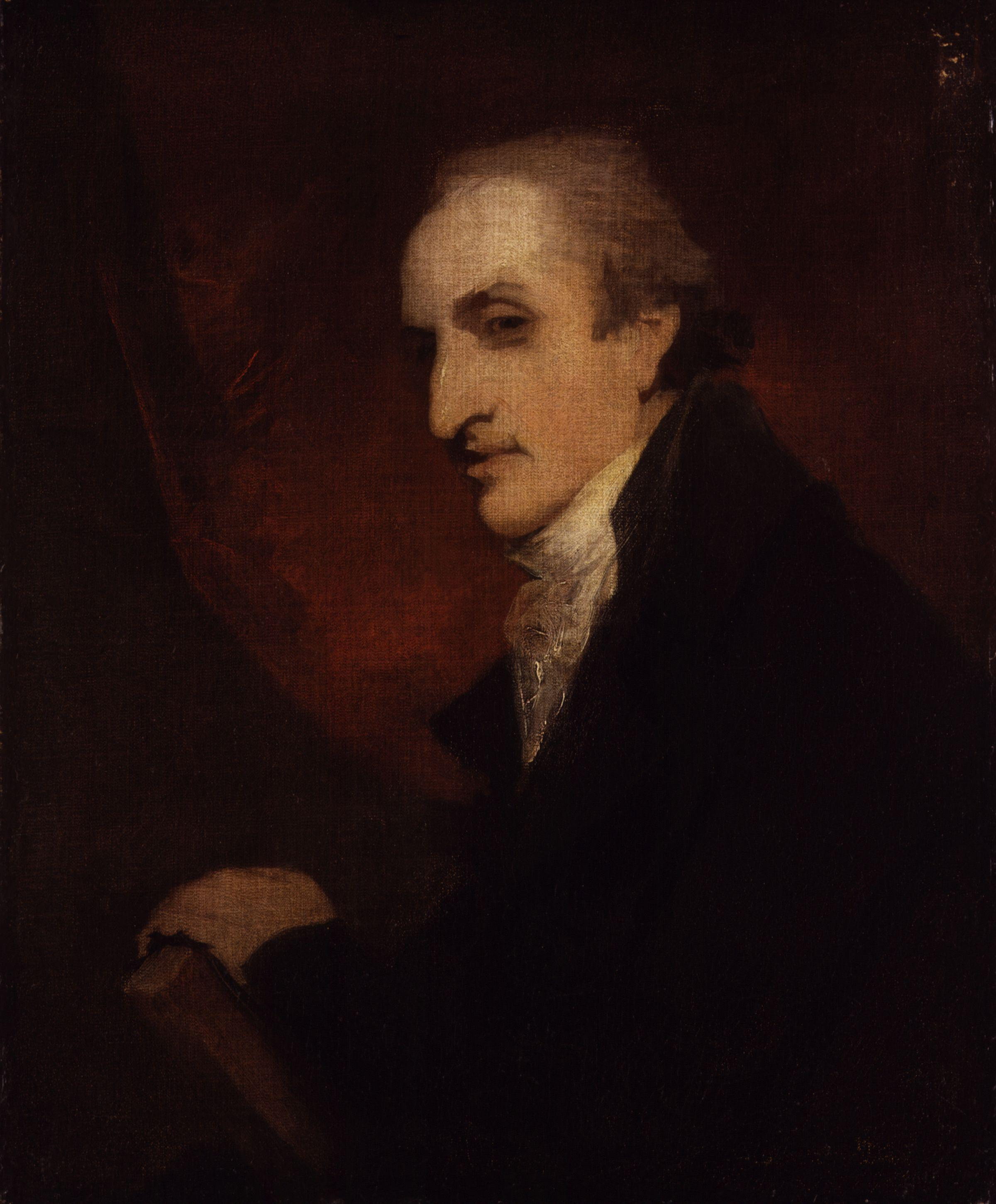 All images in this batch have been confirmed as author died before 1939 according to the official death date listed by the NPG. Given to the National Portrait Gallery, London in 1971.